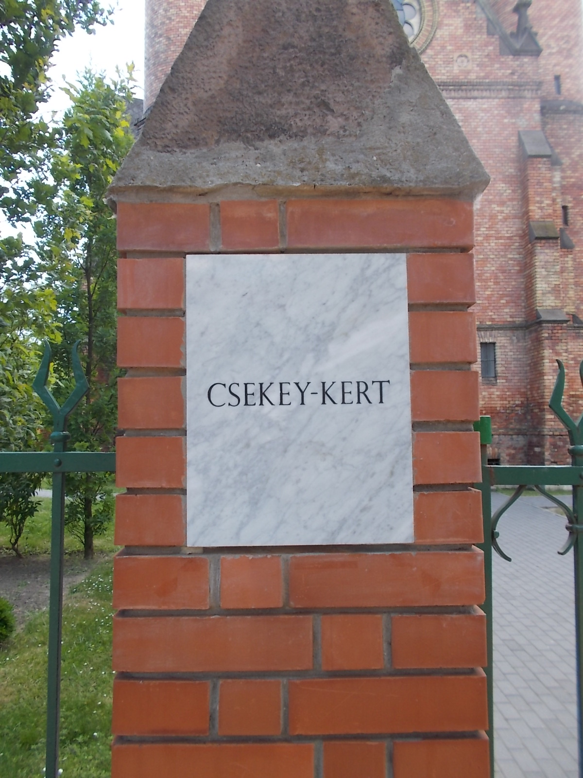 Reformed Church. It is a pentagonal shaped building, planned by Ottó Sztehló, contractor was Lajos Kocsis (from Arad), finished in 1894 (December). - Sóház Street and Szegedi Kis István lane cnr. Szolnok, Jász-Nagykun-Szolnok County, Hungary.